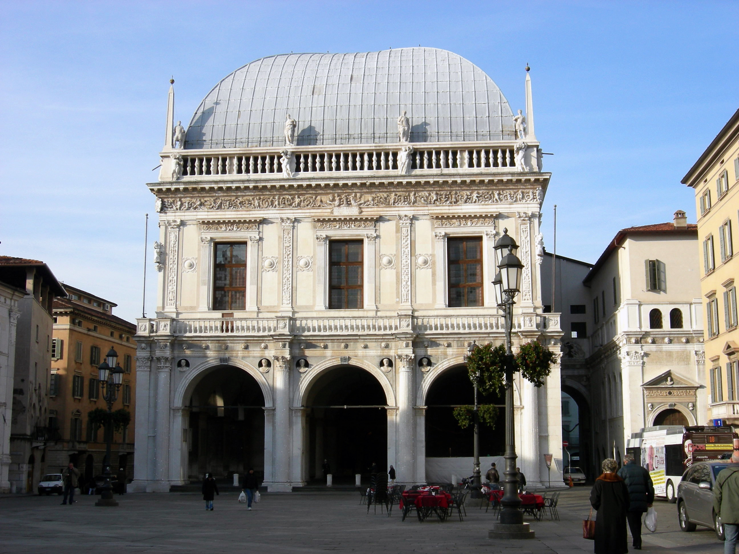 Loggia - Piazza della Loggia - Brescia